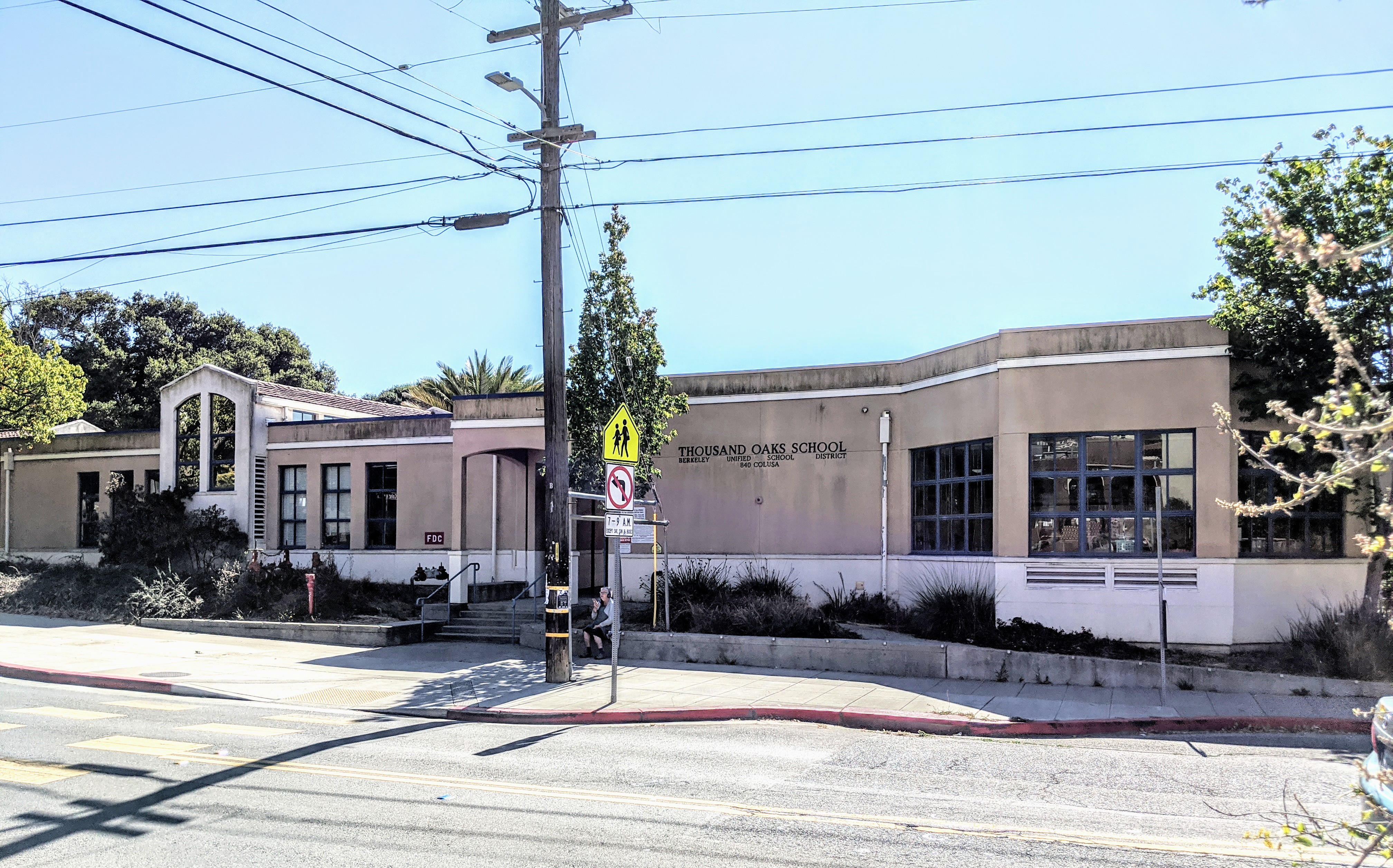 Thousand Oaks School, a primary school in Berkeley, California. Photo by Jim Heaphy.